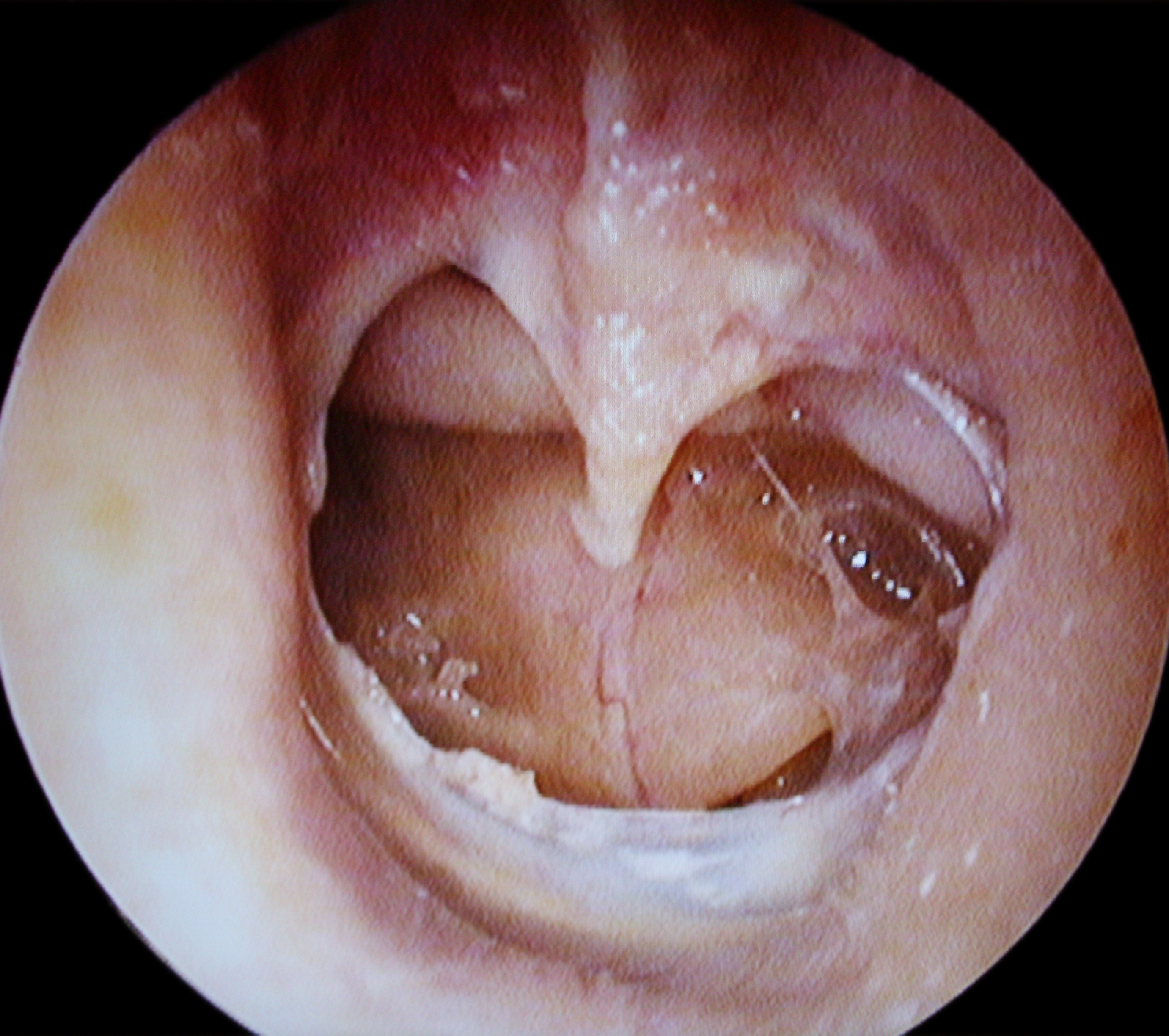 Large perforated eardrum